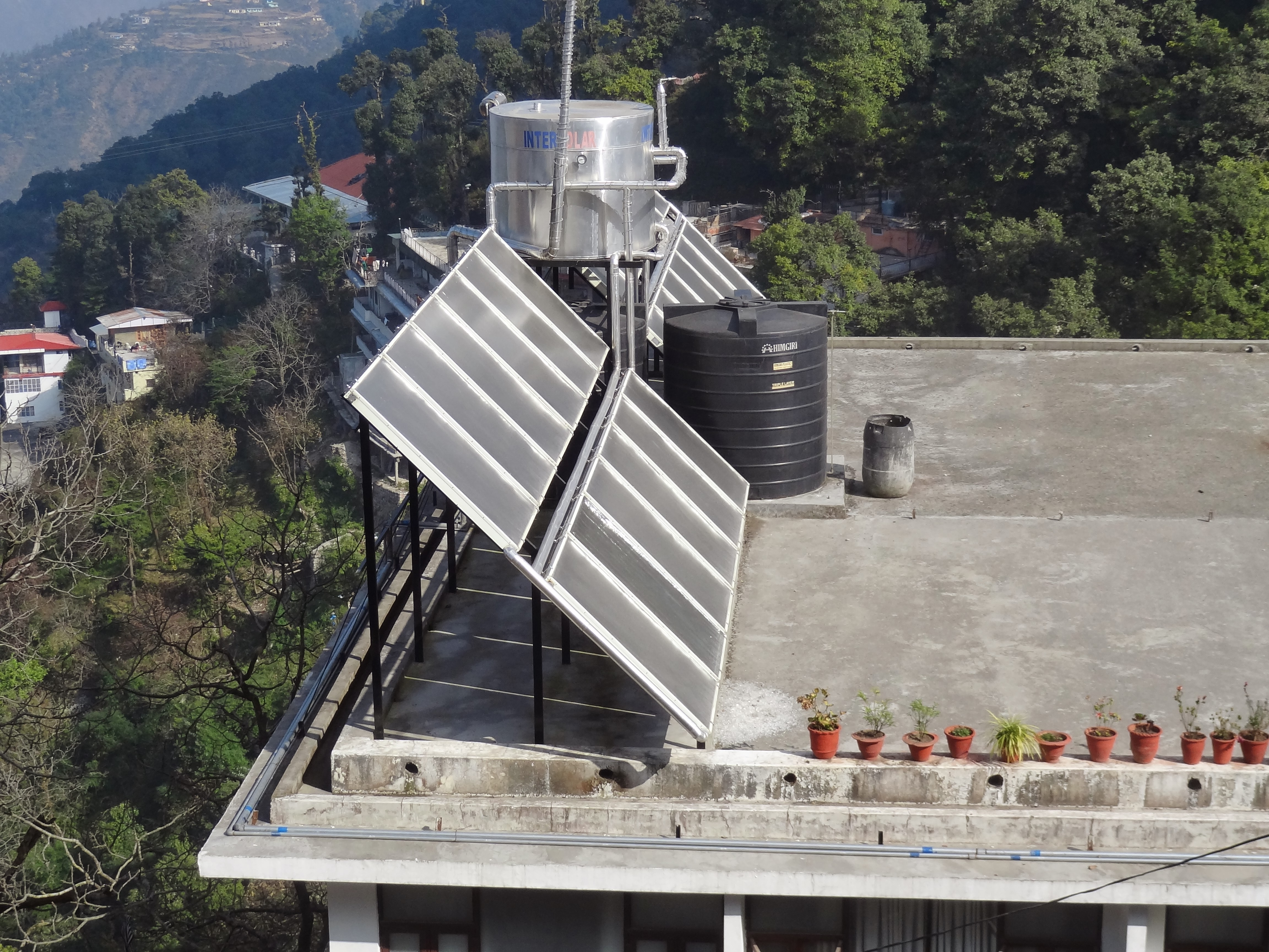 Solar water heater from Mussoorie